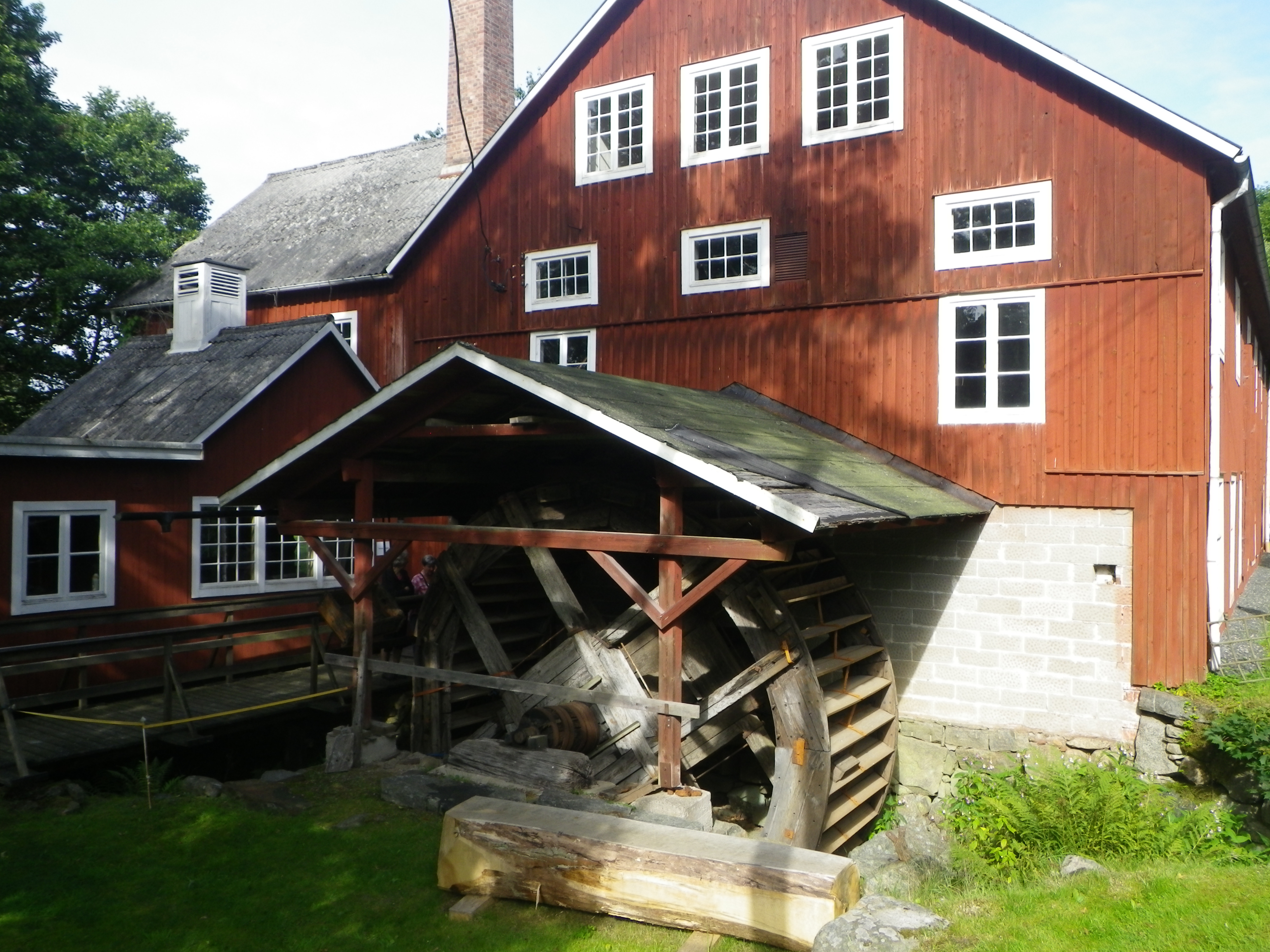 The wool spinning factory was founded in 1837 as Strömsborgs Klädesfabrik. It is now a working museum run by the local homeland association (Osby Hembygdsförening)